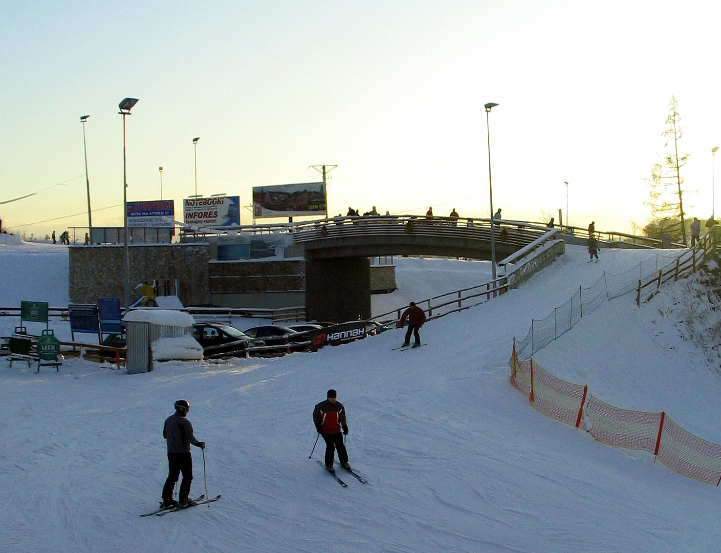 Ski slope in Przemyśl, Poland - Ski bridge up the Pasteur street